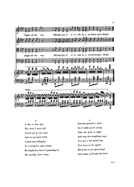 An original arrangement of "The One Horse Open Sleigh" at The Library of Congress.